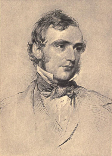 Arthur Hobhouse, 1st Baron Hobhouse circa 1854 aged 35